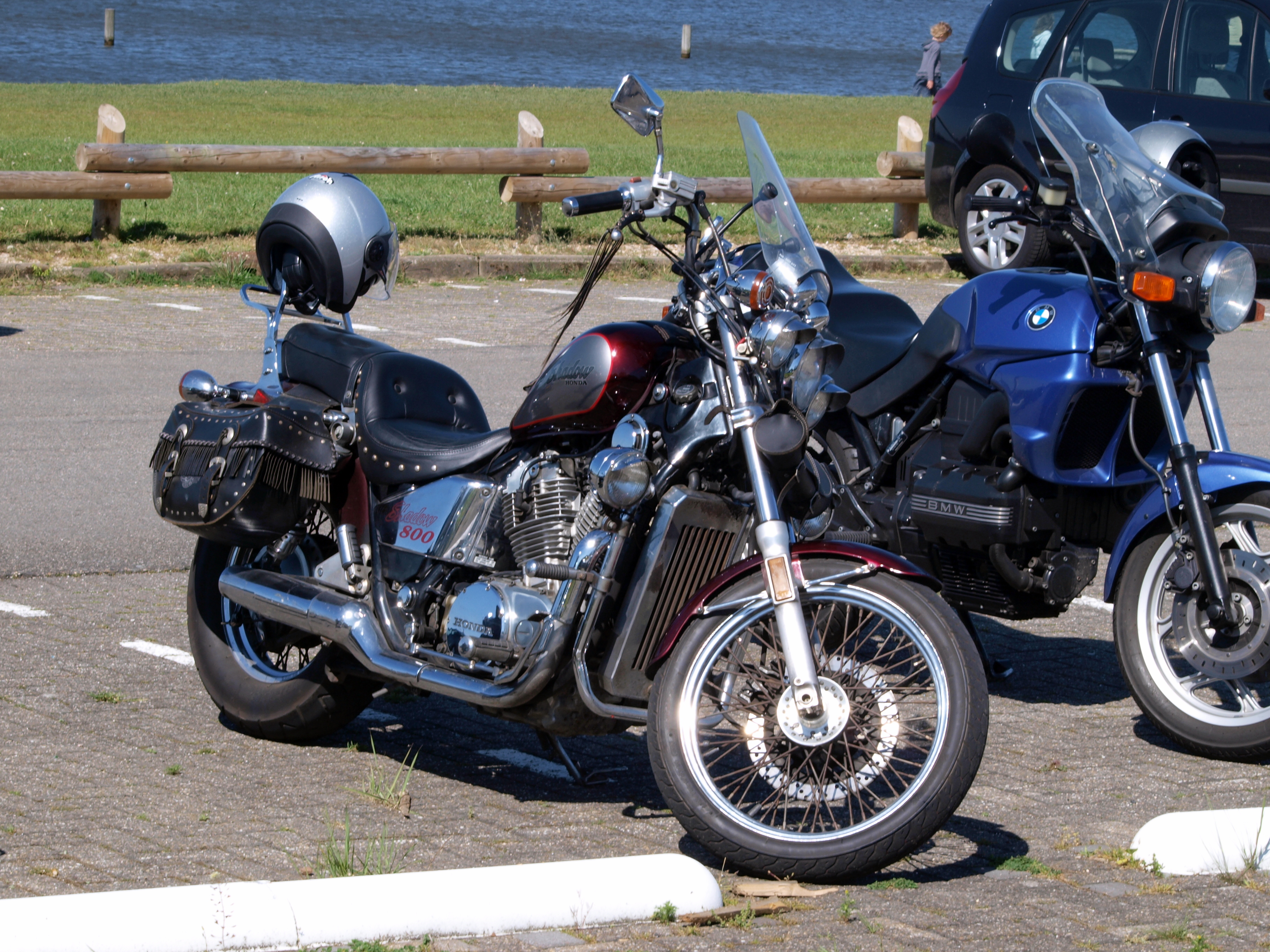 Photographed at Valkenburg, The Netherlands